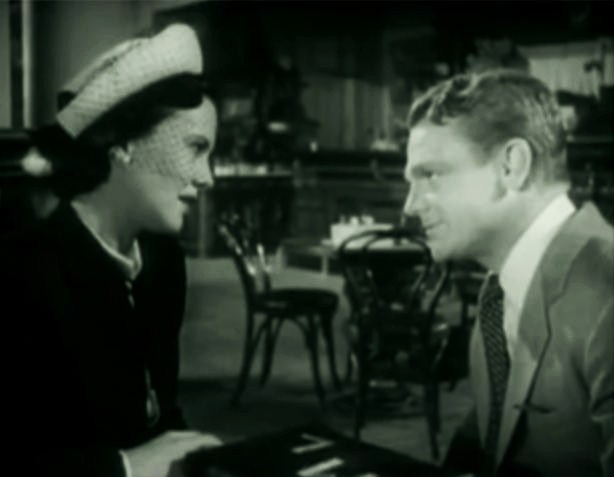 Gale Page & James Cagney in The Time of Your Life - cropped screenshot